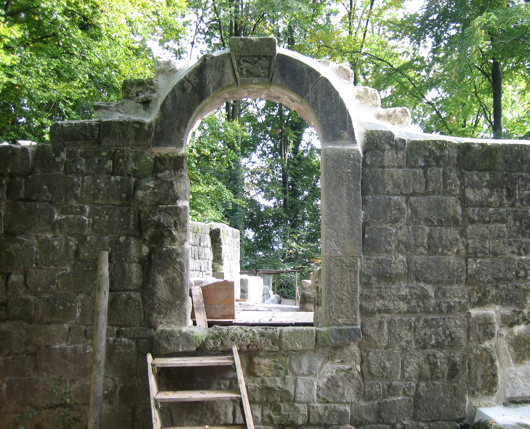 Burg Hünenberg in Zug, Schweiz